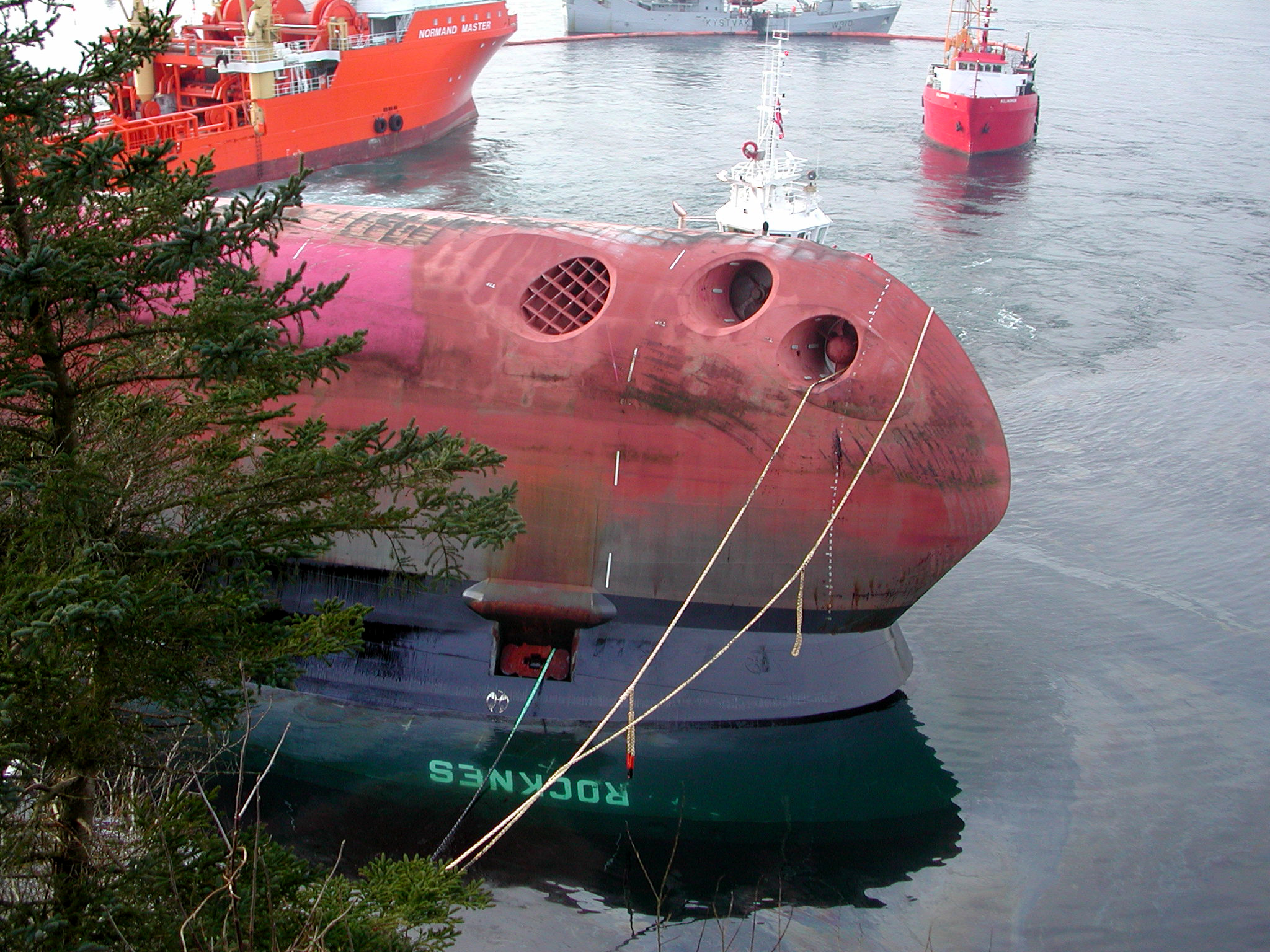 M/S «Rocknes» which capsized in Vatlestraumen outside Bergen, Norway, 19 January 2004. 18 people abord the ship died in the accident.